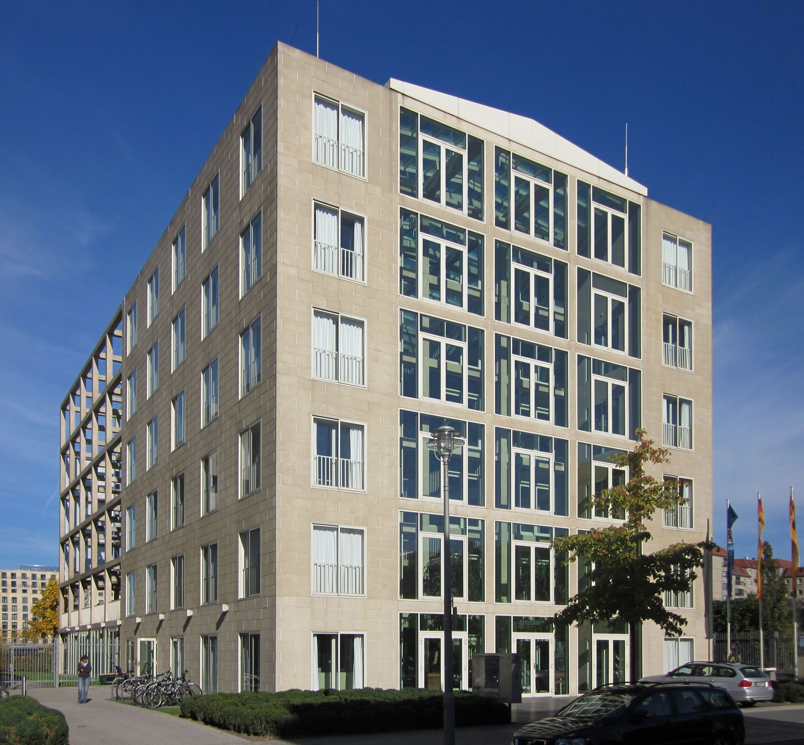 Building of the Representation of the state of Saarland to the German Federal Government, In den Ministergärten 4, in Berlin-Mitte. The building was constructed from 1999 to 2000 to a design by the architects Alt & Britz from Saarbrücken.